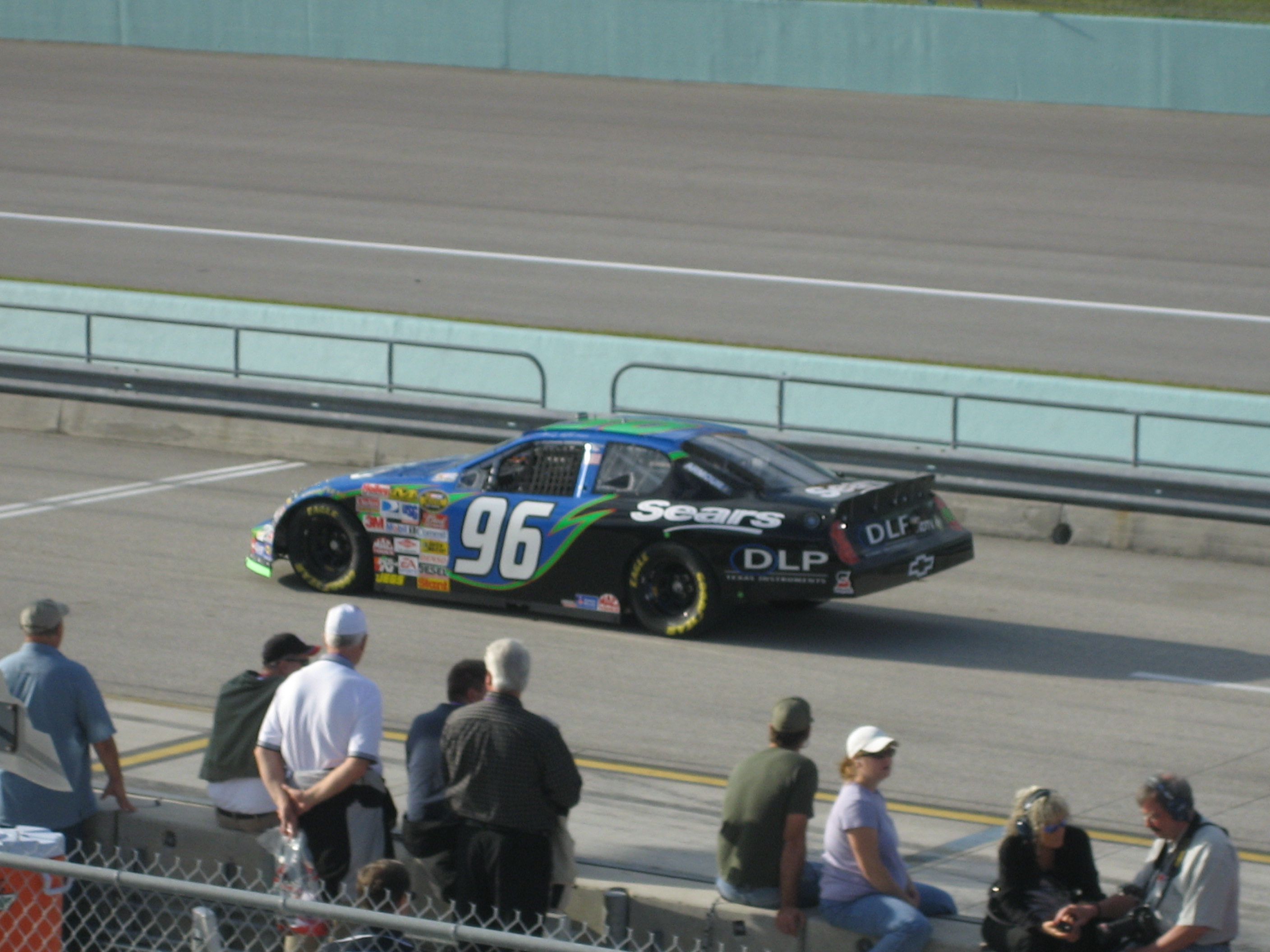 Tony Raines during practice for the 2007 Ford 400 at Homestead-Miami Speedway